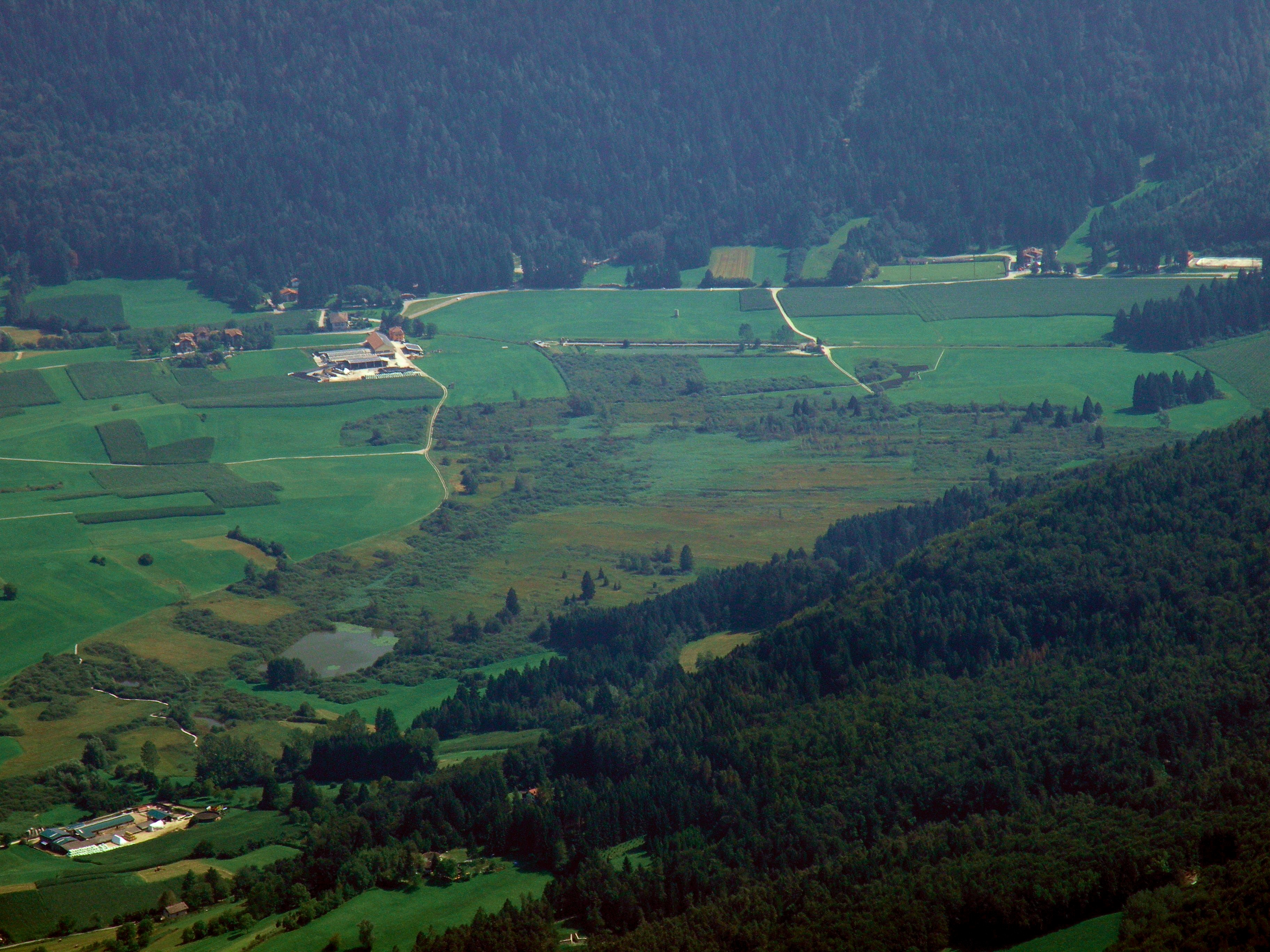 The landscape of Biotope Fiavé viewed by Cima Serra mountain